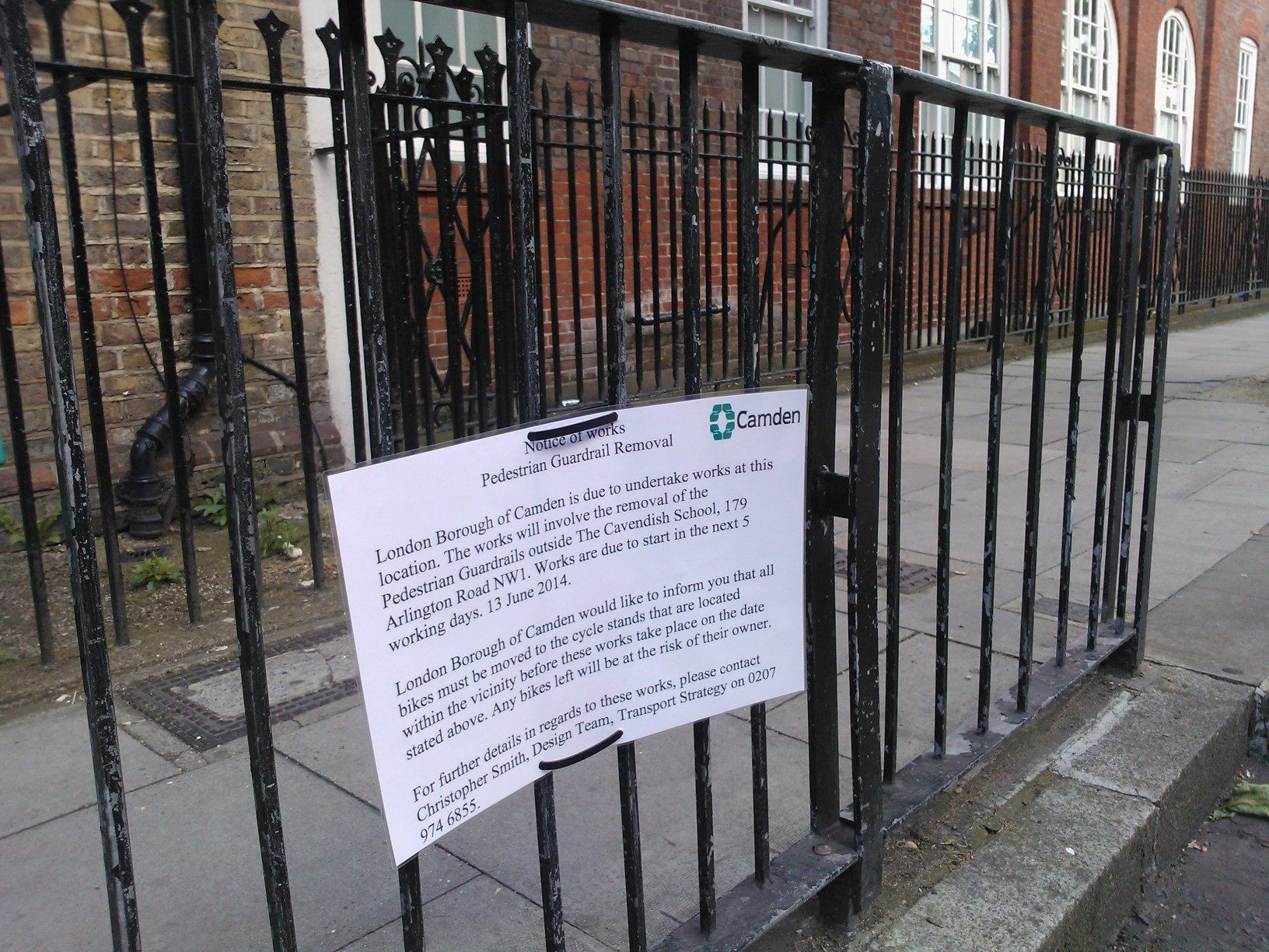 A section of guardrail in the London Borough of Camden with a sign stating that it is due to be removed in June 2014.